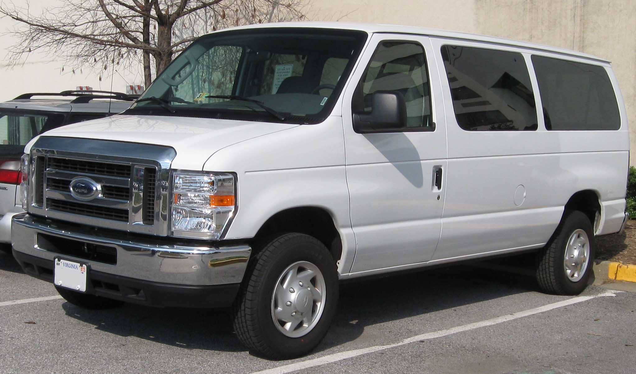 2008 Ford E-Series photographed in College Park, Maryland, USA.